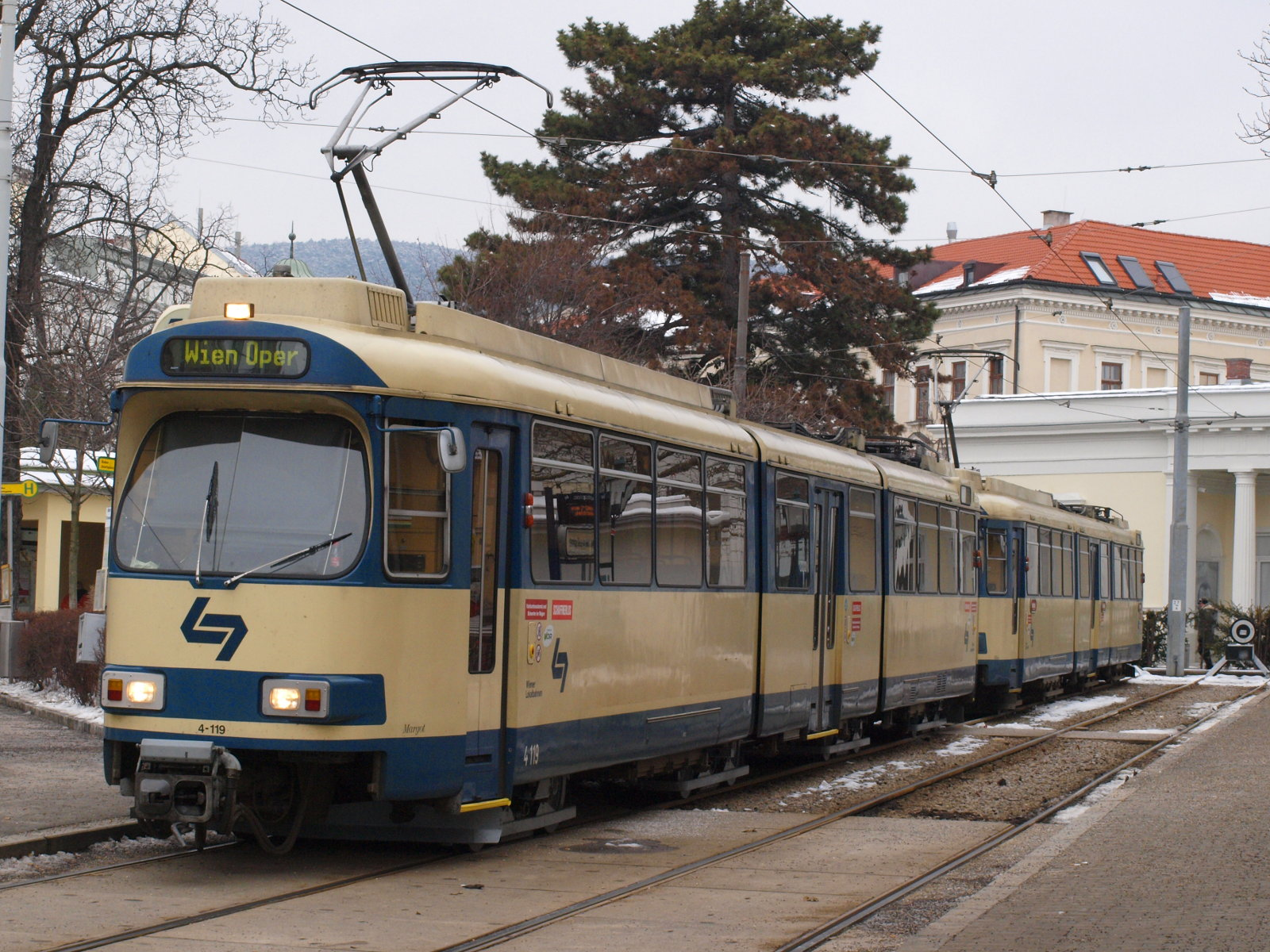 Badner Bahn train at Baden Josefsplatz terminus.